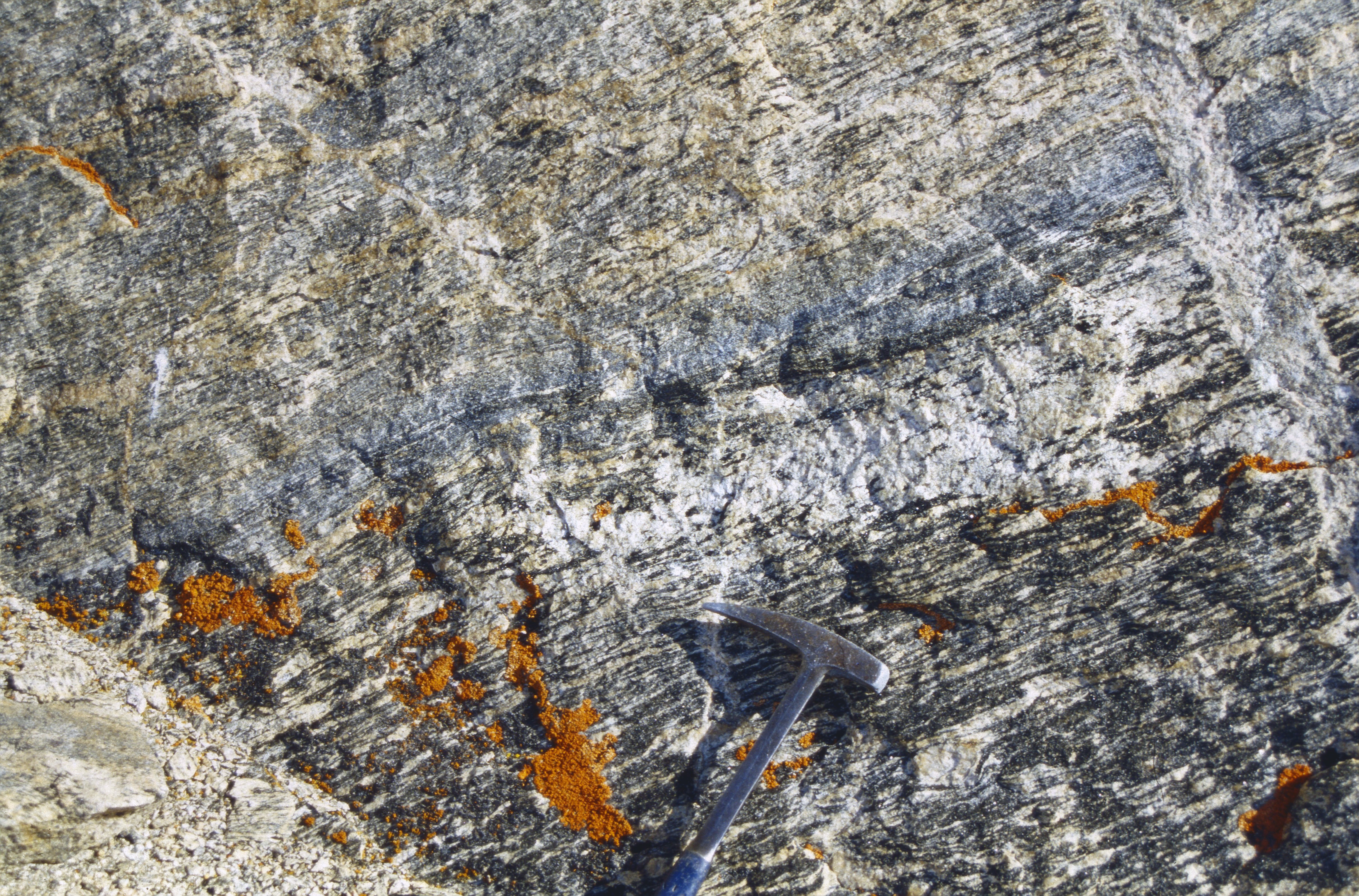 The lichen Xanthoria elegans on a rock surface at Risemedet, Dronning Maud Land, Antarctica